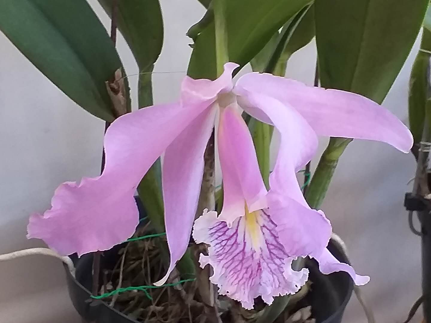 Cattleya. Taichung, Taiwan.